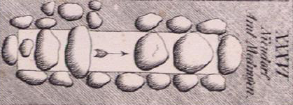 Megalithic tomb near Niendorf I, Sprockhoff-No. 758